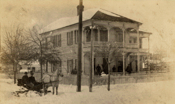 Rare snowfall in Lake Charles, Louisiana, 1895. The Miguel Rosteet home, corner of Pujo and Bilbo Streets.